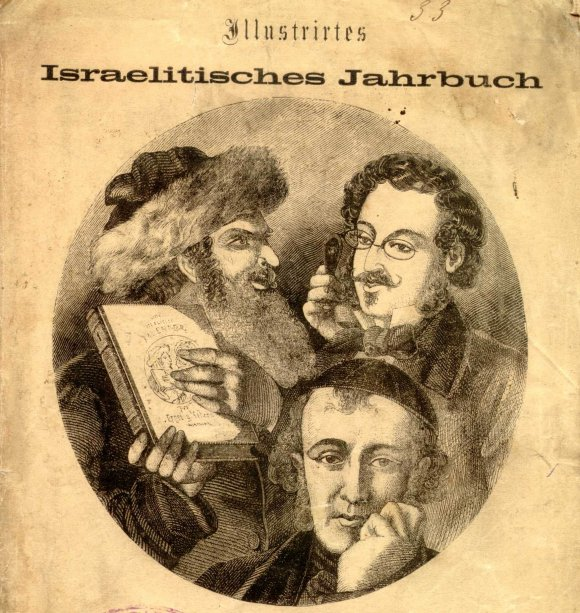 The title page of a 1860 edition of the Illustrirtes Israelitisches Jahrbuch, a journal published in Pesth.